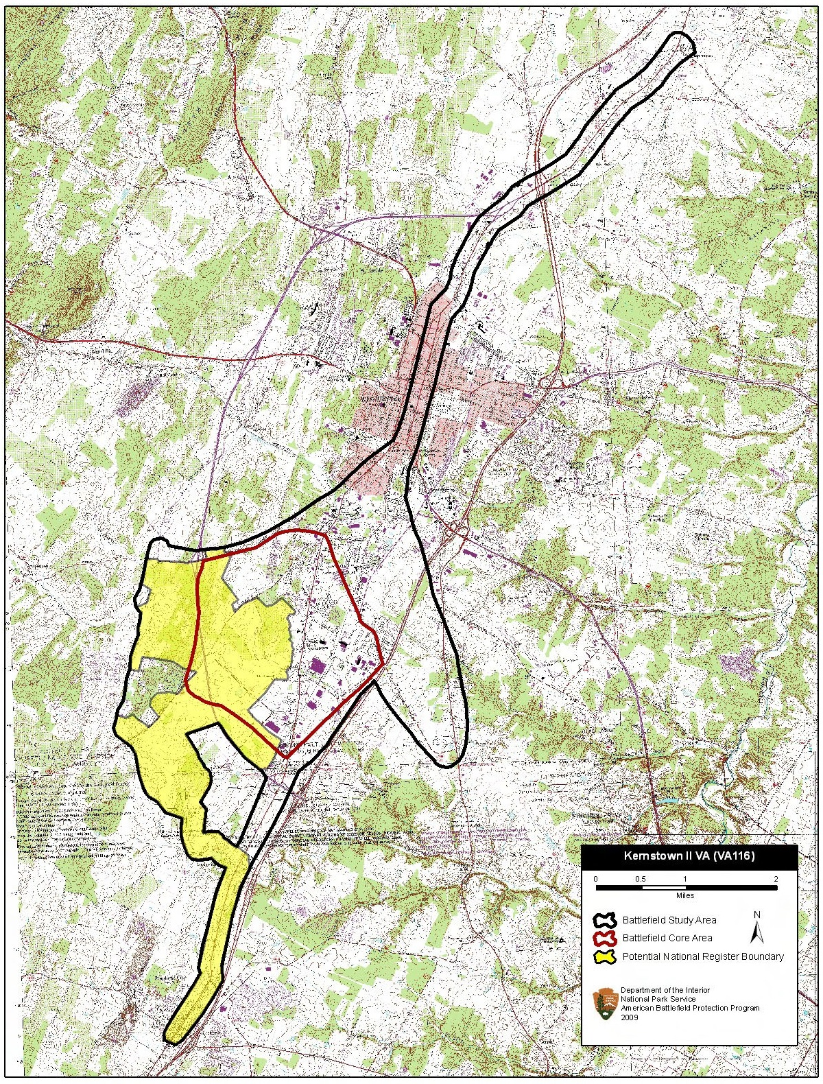 Map of battlefield core and study areas. The revised Study Area includes routes of Confederate advance and Federal retreat. The Core Area was expanded West over what is now Route 37 to take into account Confederate Major General Stephen D. Ramseur's assault on the Union right flank.